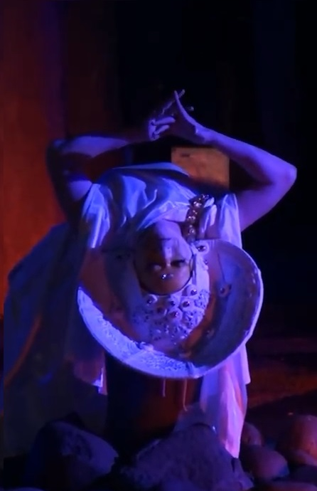 Lena Guslina performing "Mandala Kasungka" at Balaikota Bandung in October 1, 2017.